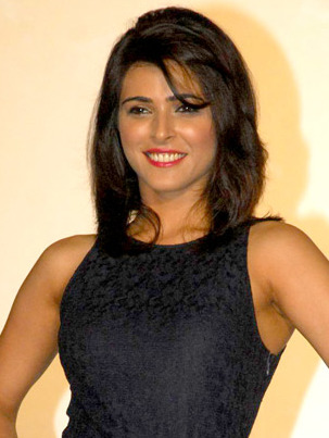 Actress Madhurima Tuli at first look & trailer launch of her film Warning.